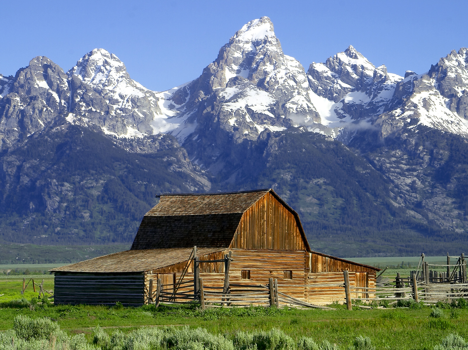 The John Moulton Barn on Mormon Row at the base of the Grand Tetons, Wyoming.